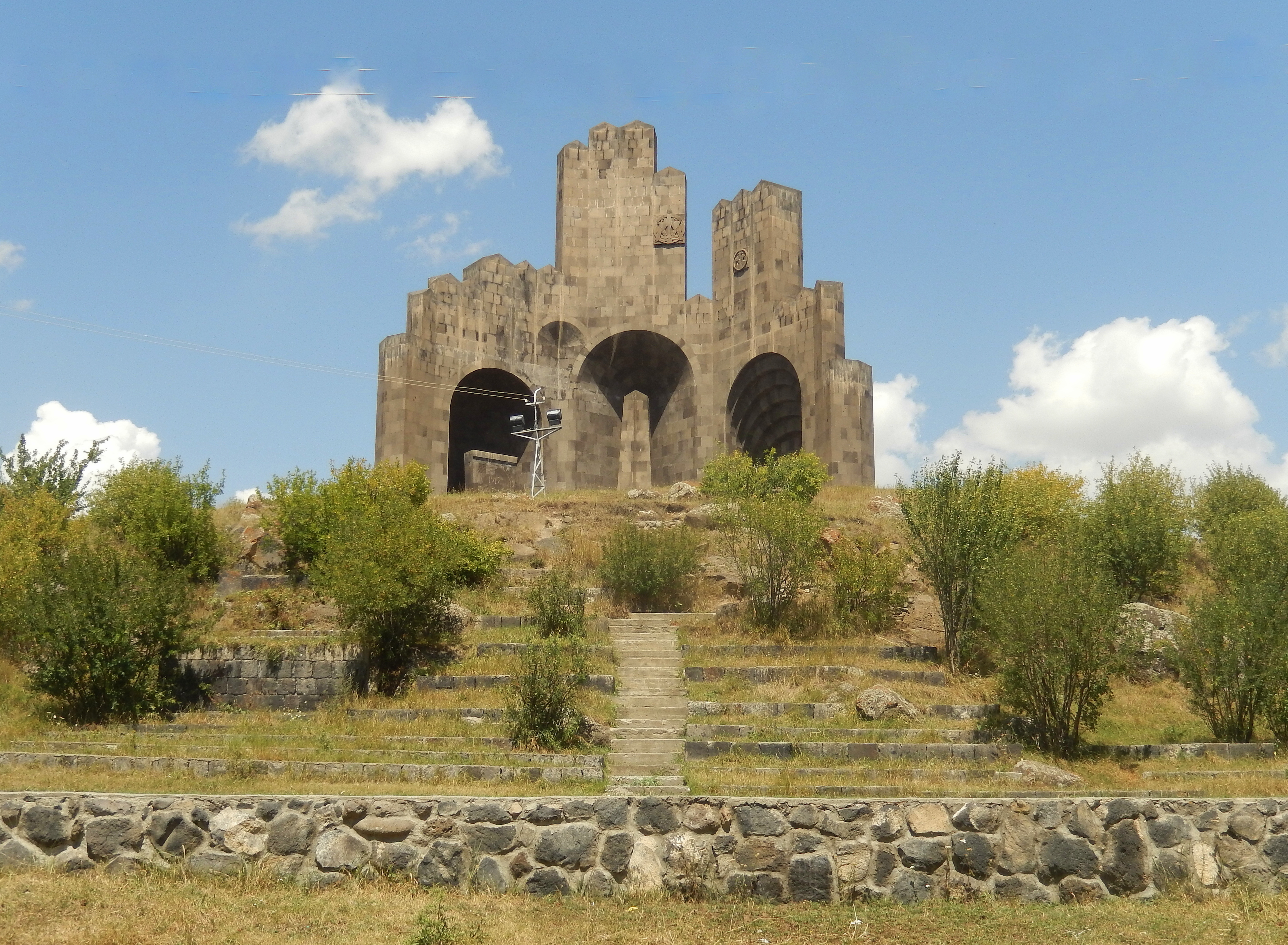 Memorial Complex Rebirth, Bash-Aparan